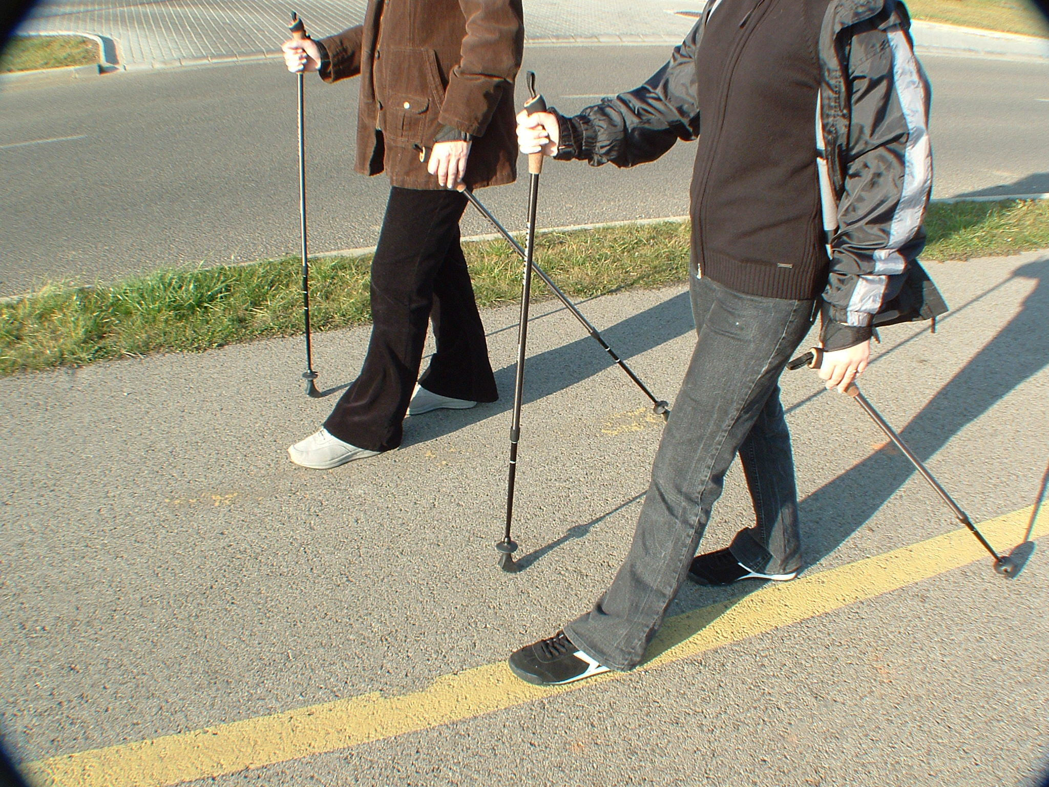 Nordic walking in Hungary